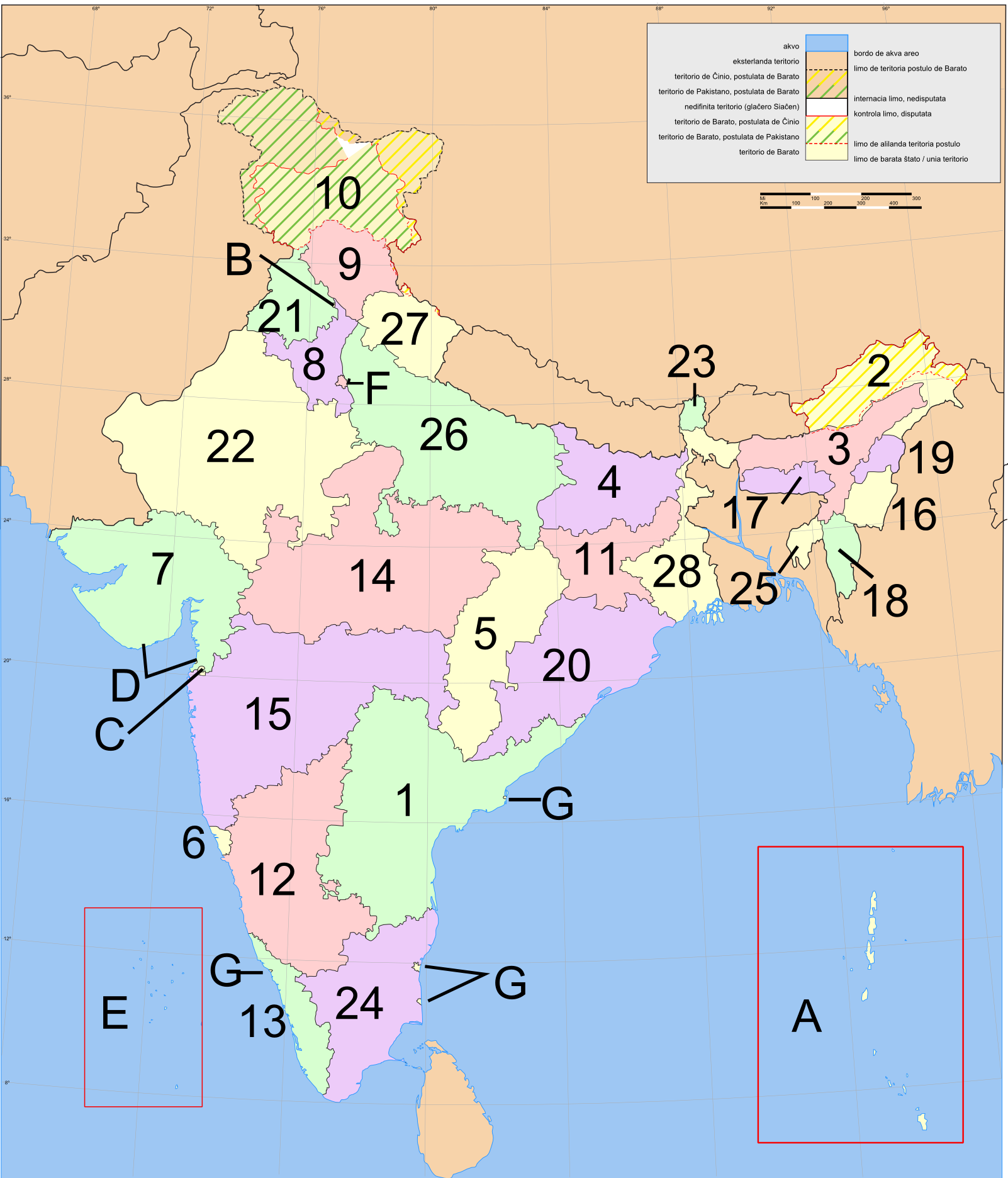 map of the states and territories of India, numbered, labelled in Esperanto